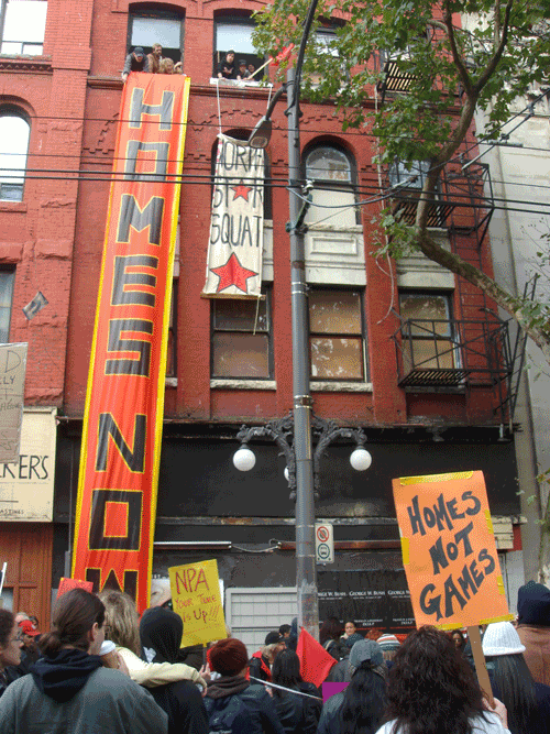 The Squatting of the North Star hotel in Vancouver, British Columbia, Canada